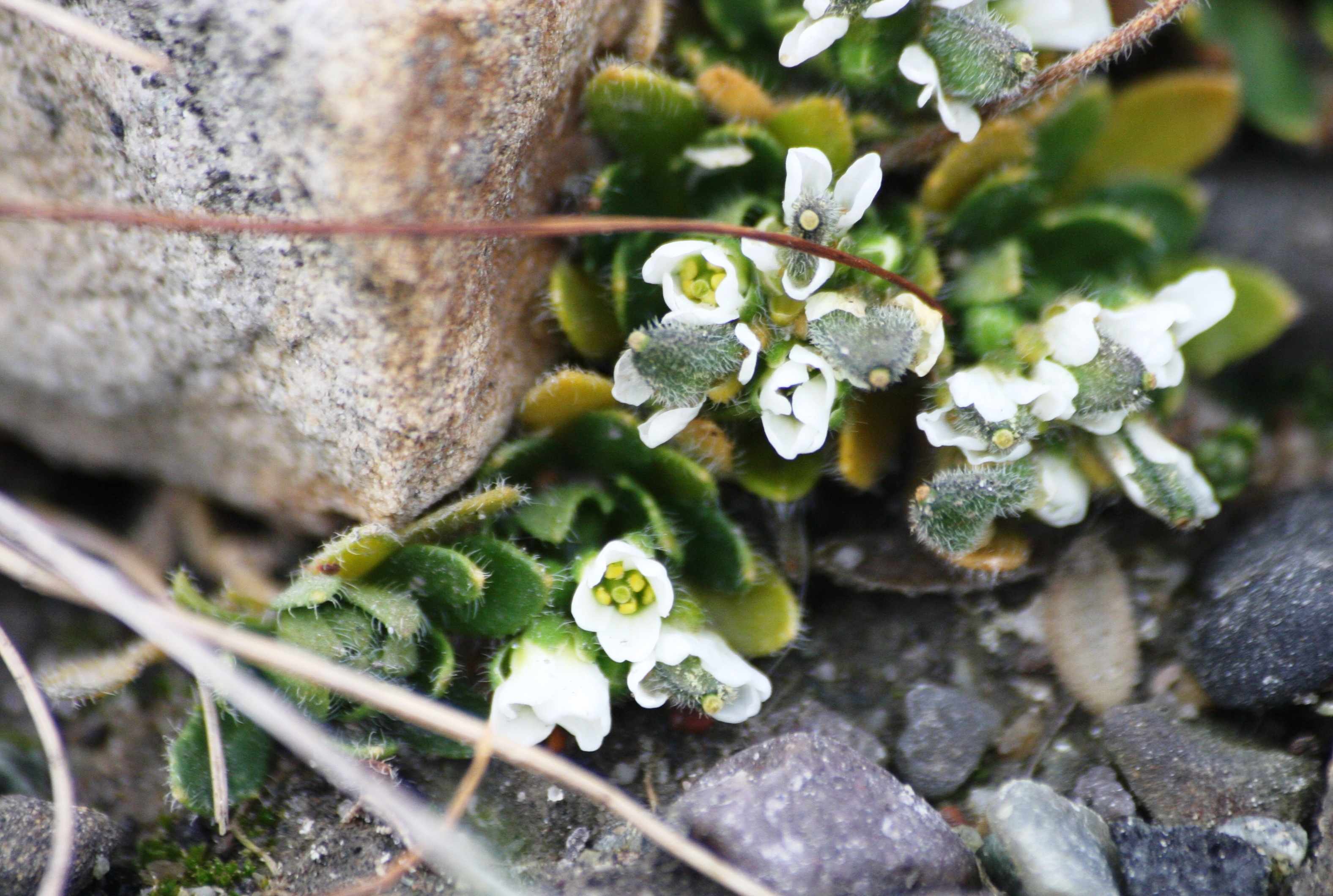 Photo from Gruve 1 and Skjaeringa surroundings, western Longyearbyen - Svalbard.